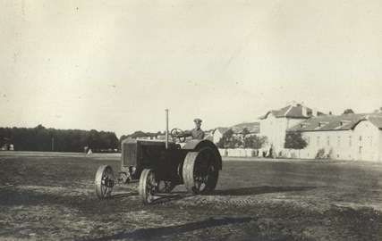 Bulgaria